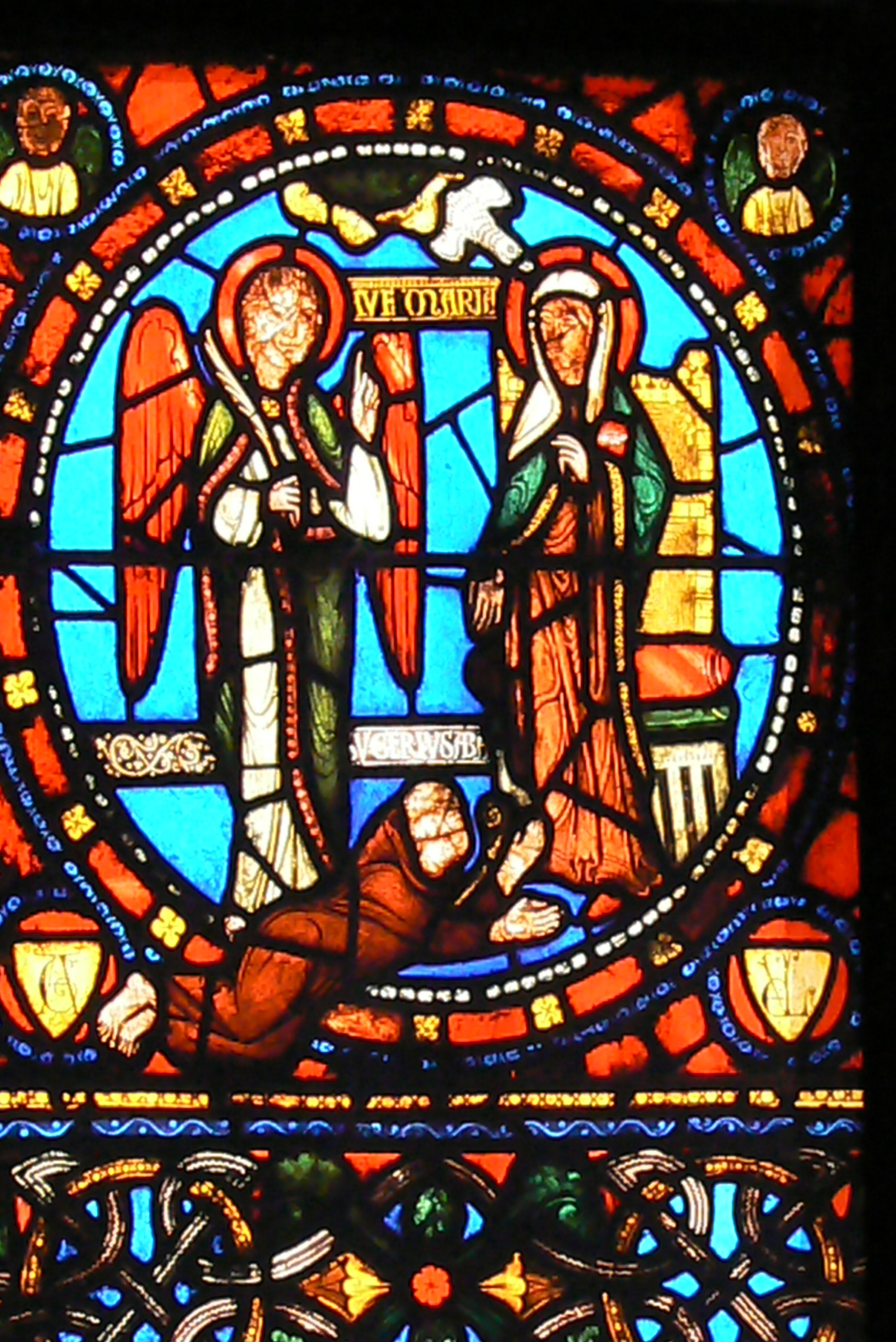 Basilica of Saint Denis, Paris, interior, stained glass window; see Louis Grodecki: Etudes sur les vitraux de Suger à Saint-Denis (XIIe siècle), Paris 1995